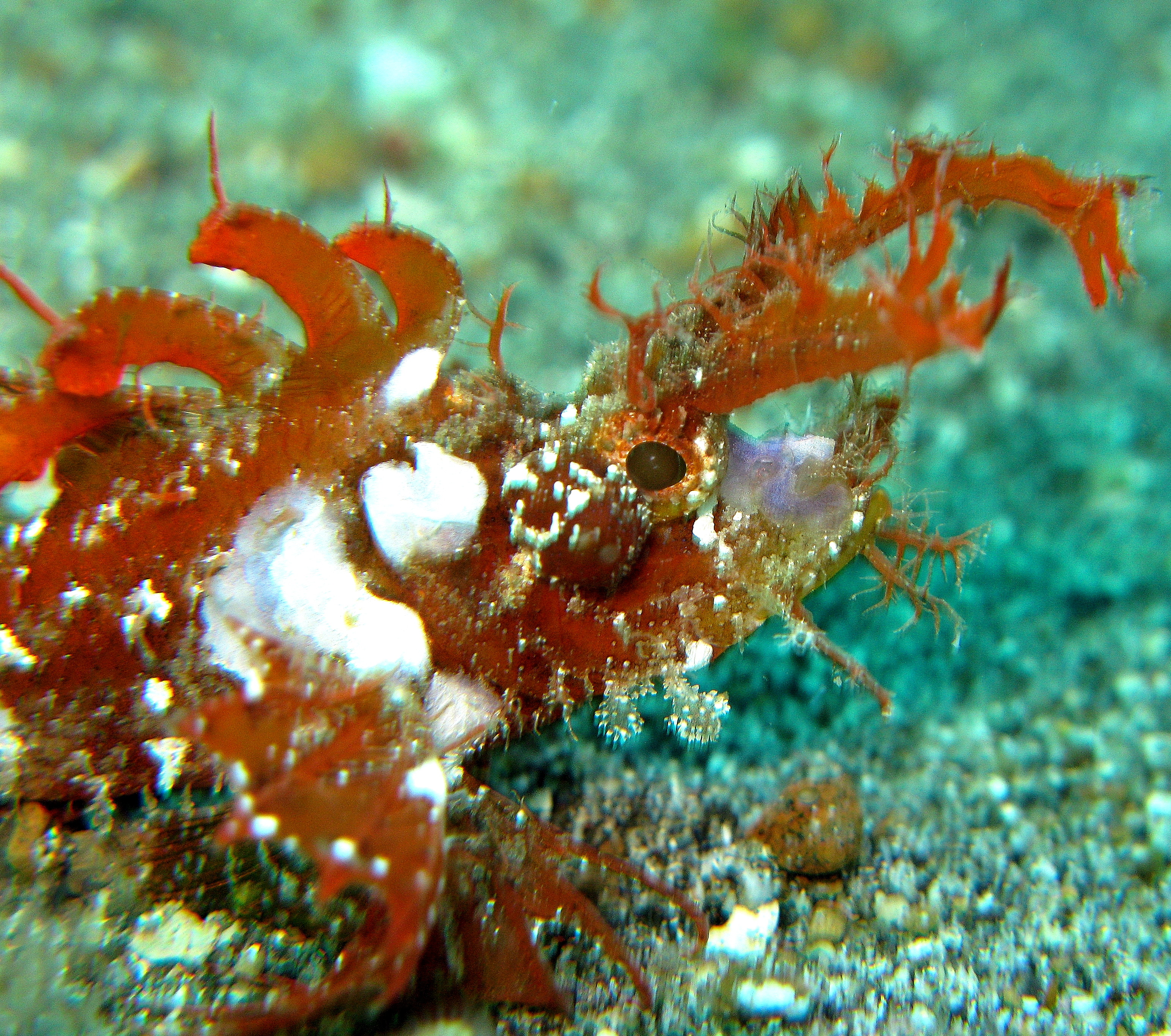 Pteroidichthys amboinensis